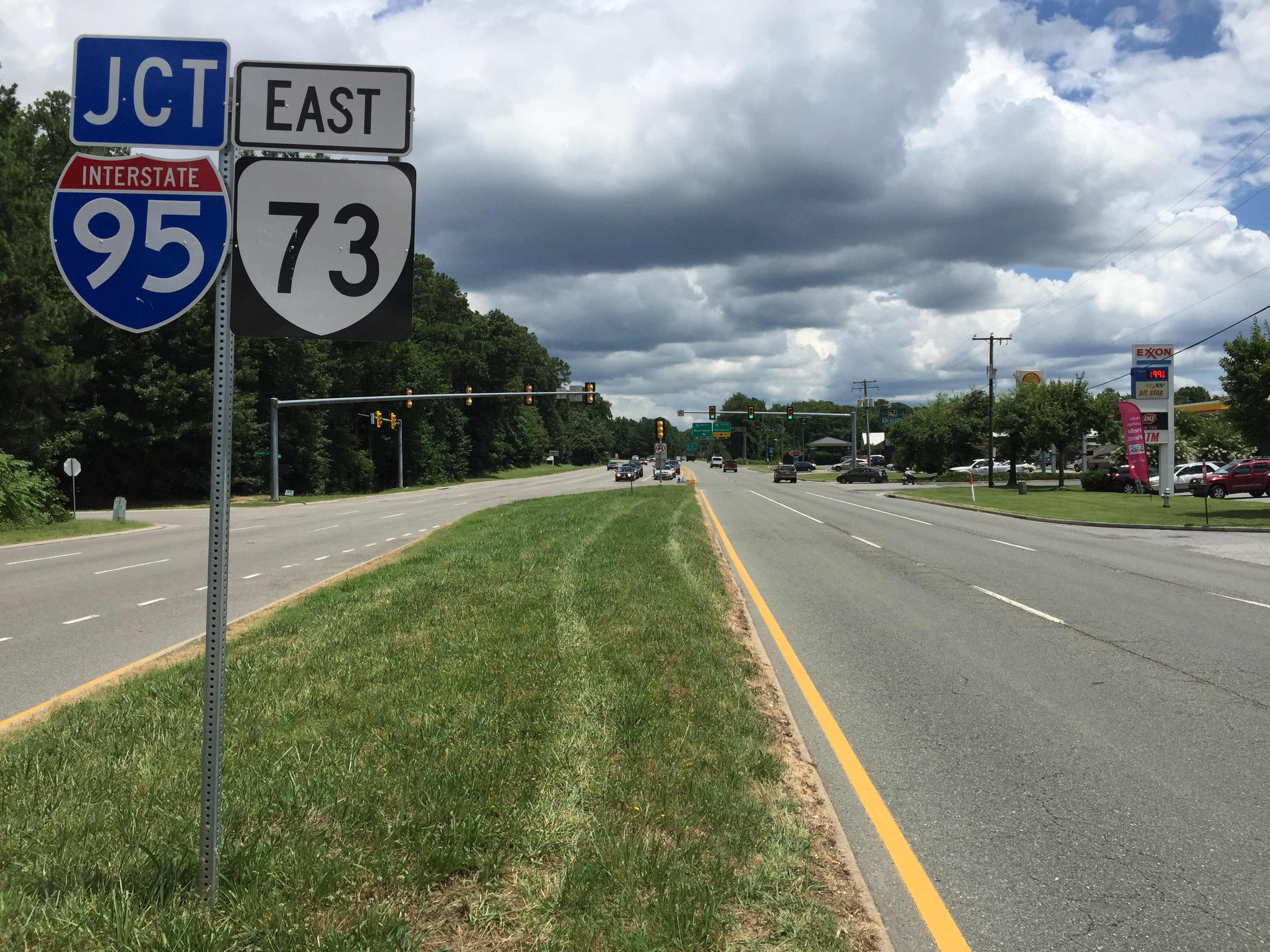 View east along Virginia State Route 73 (Parham Road) at Aberdeen Street in Glen Allen, Henrico County, Virginia